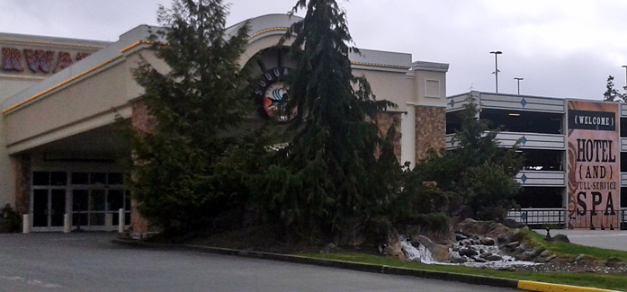 front of the Suquamish Clearwater Resort Casino